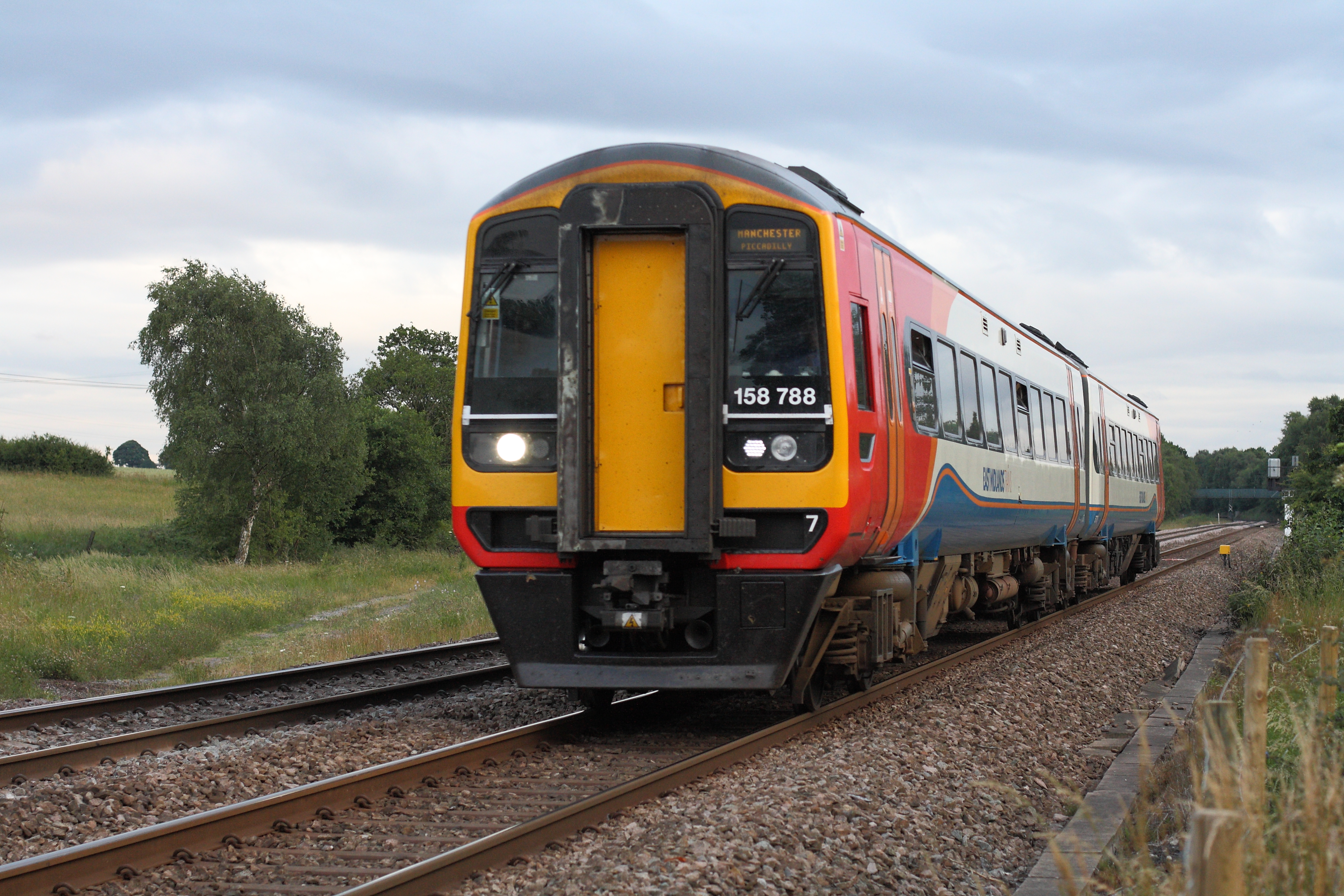 158788 , Lower Pilsley